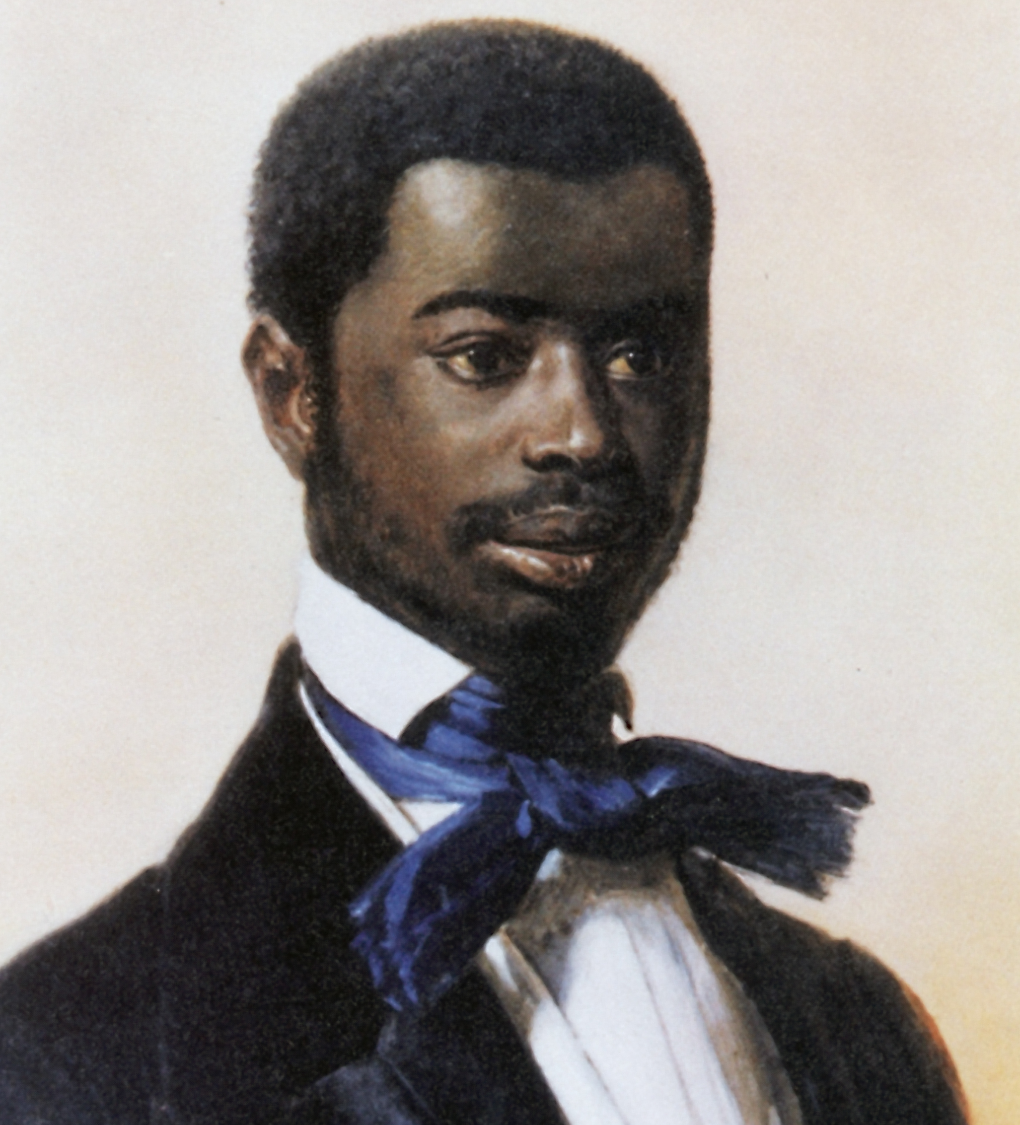 Portrait of Aquasi Boachi in the Bergakademie in Freiberg, Saxony